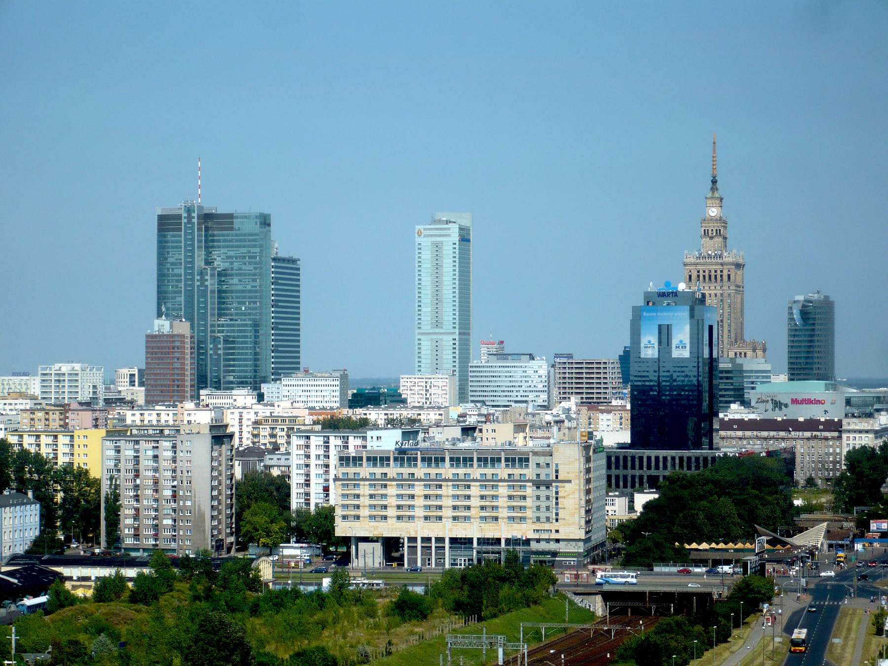 Downtown Southern in Warsaw